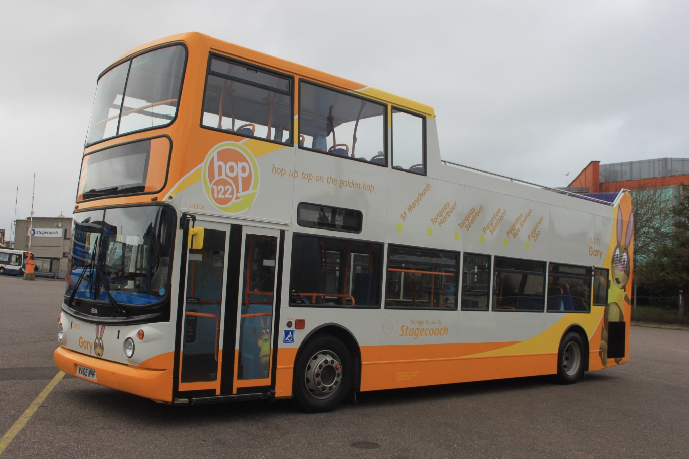 On display at a 2017 bus rally in Exeter is Stagecoach Devon's 18306, an ALX400 registered WA05MHF, which has just been converted to open top for route 22 between St Marychurch and Torquay to Paignton Zoo.